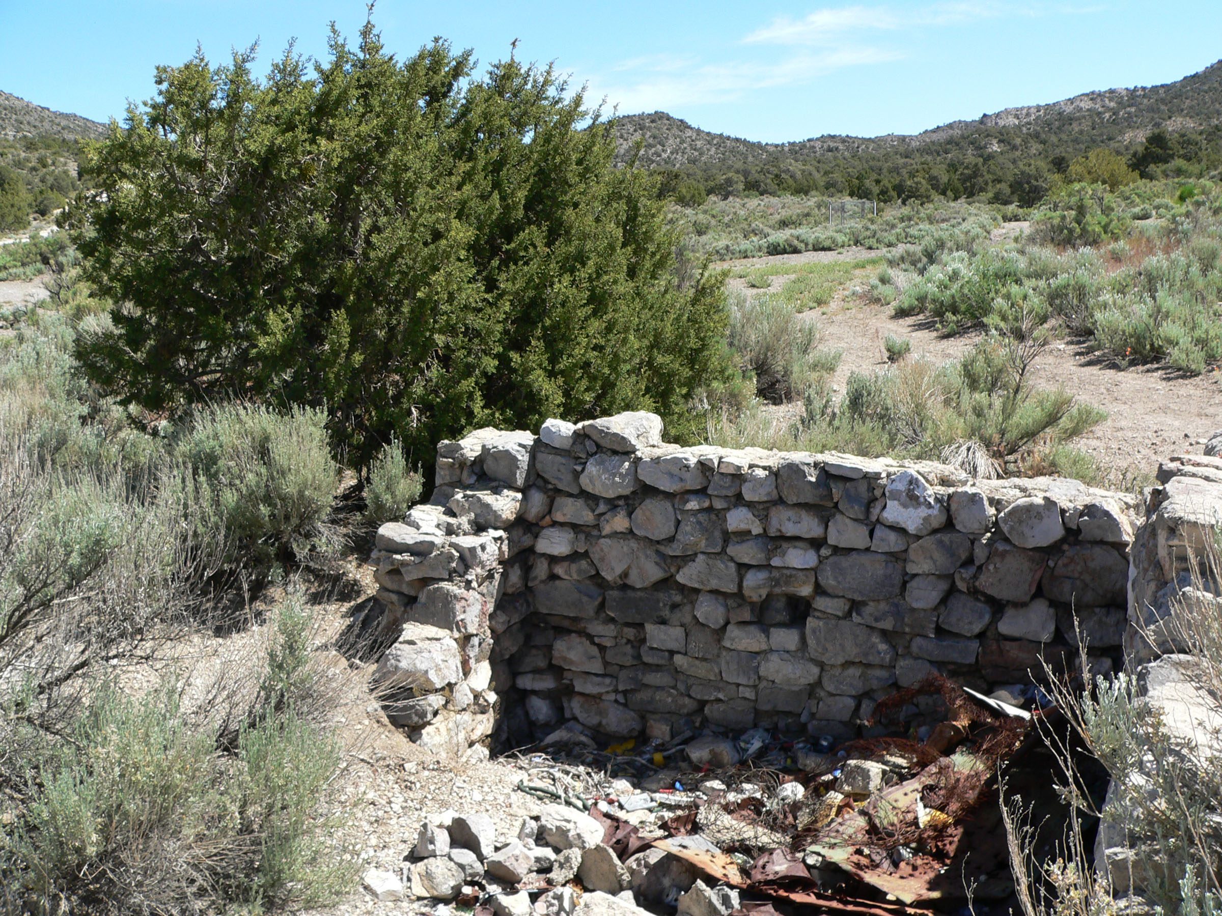 Ruins at Potosi Spring, on the west side of Potosi Mountain, Spring Mountains, southern Nevada